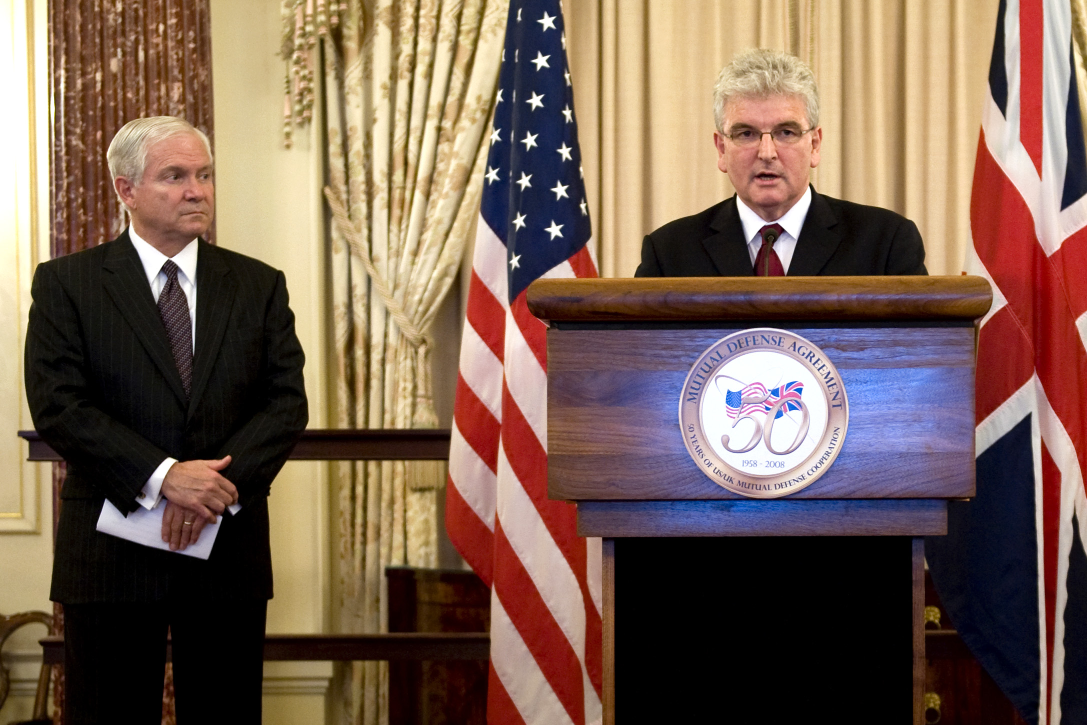 United Kingdom Defense Minister Des Browne addresses the audience during a reception hosted by U.S. Defense Secretary Robert M. Gates, left, commemorating the 50th anniversary of the Mutual Defense Agreement between the United States and the U.K. at the State Department in Washington, D.C., July 9, 2008.